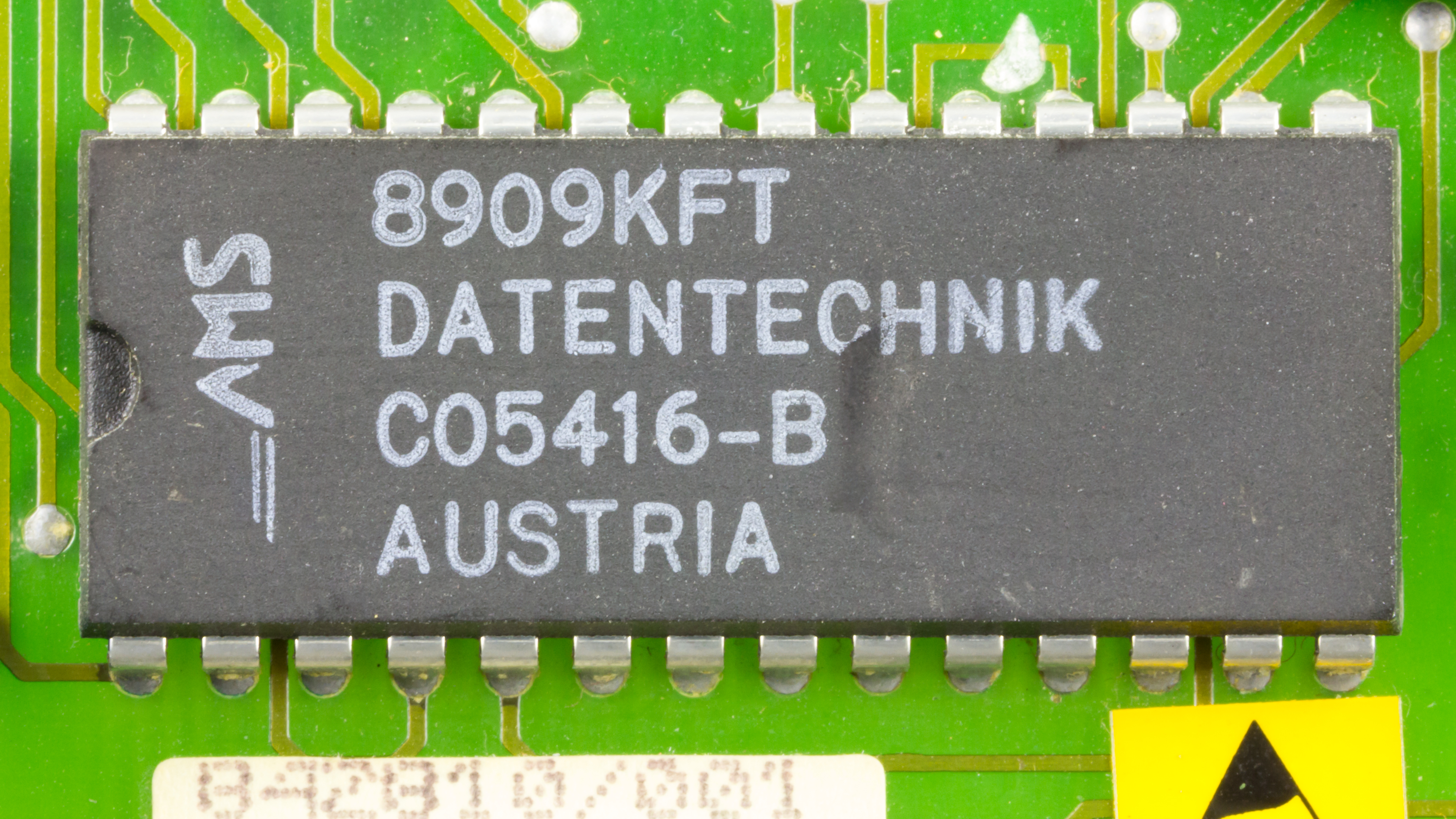 DOV-1X - ams Datentechnik C05416-B on printed circuit board. Package: DIP 28